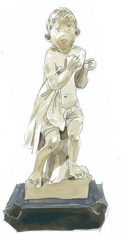 Drawing of Yamazaki Chôun for a sculpture "How cold!"